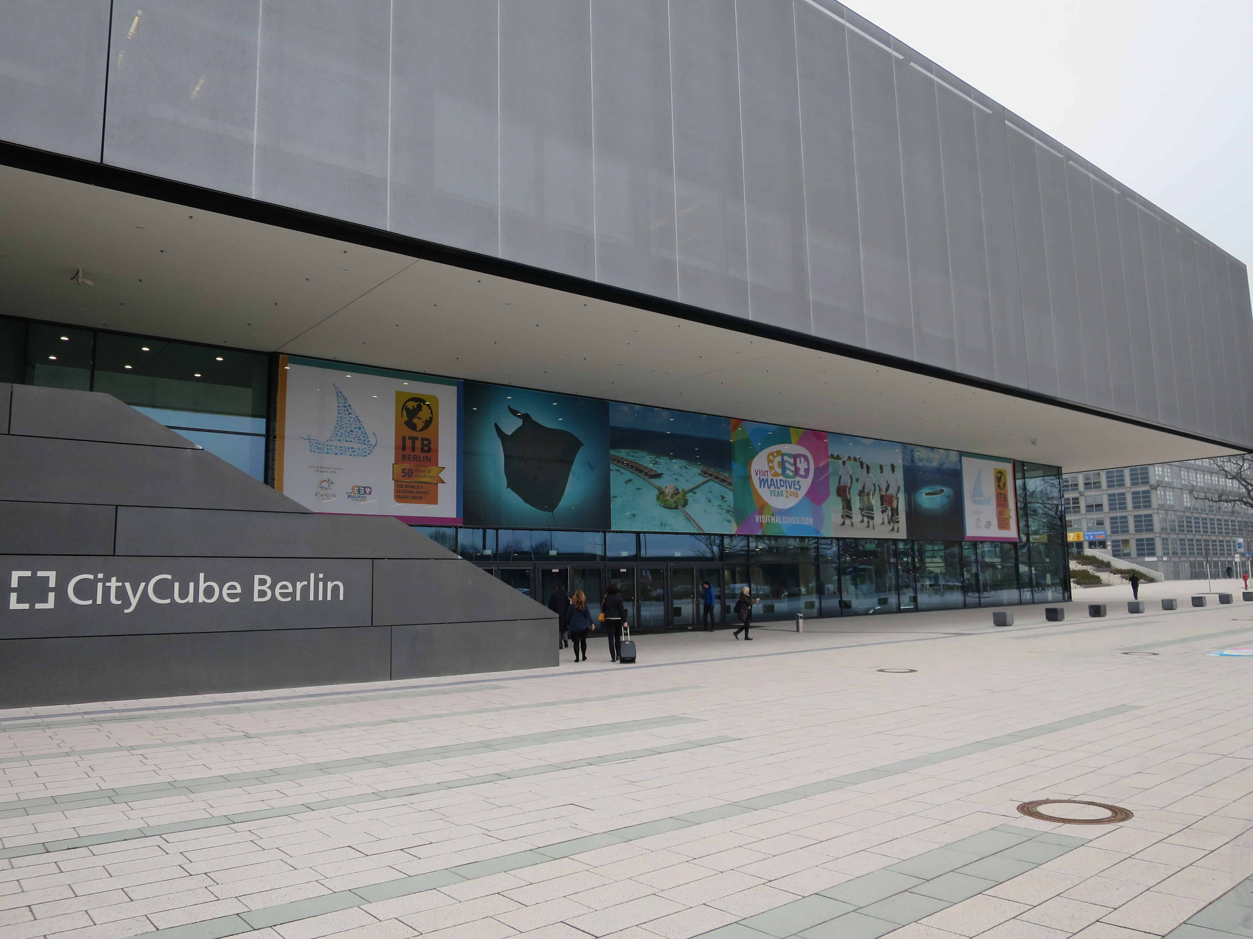 ITB Berlin 2016 The making of this document was supported by Wikimedia Polska Association, within Wikigrant no. WG 2016-9. English | polski | +/−